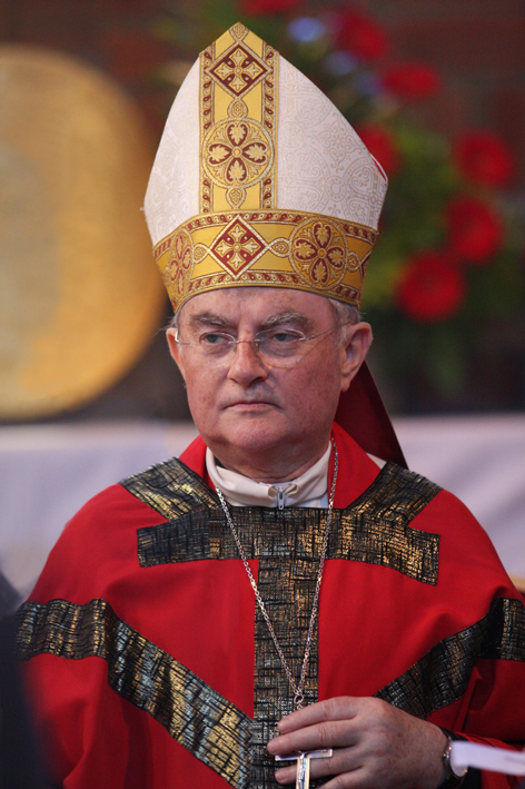 Archpishop Henryk Hoser in Arcueil, France, in 2009.